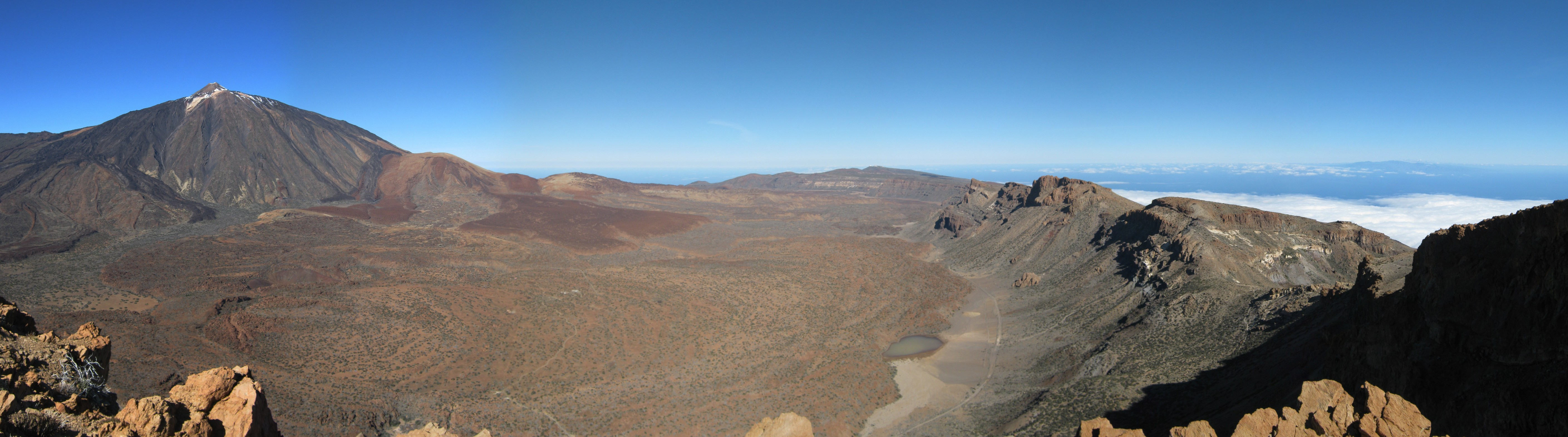 Panorama view from top of Mount Guajar over the Canadas, Pico del Teide and Izana